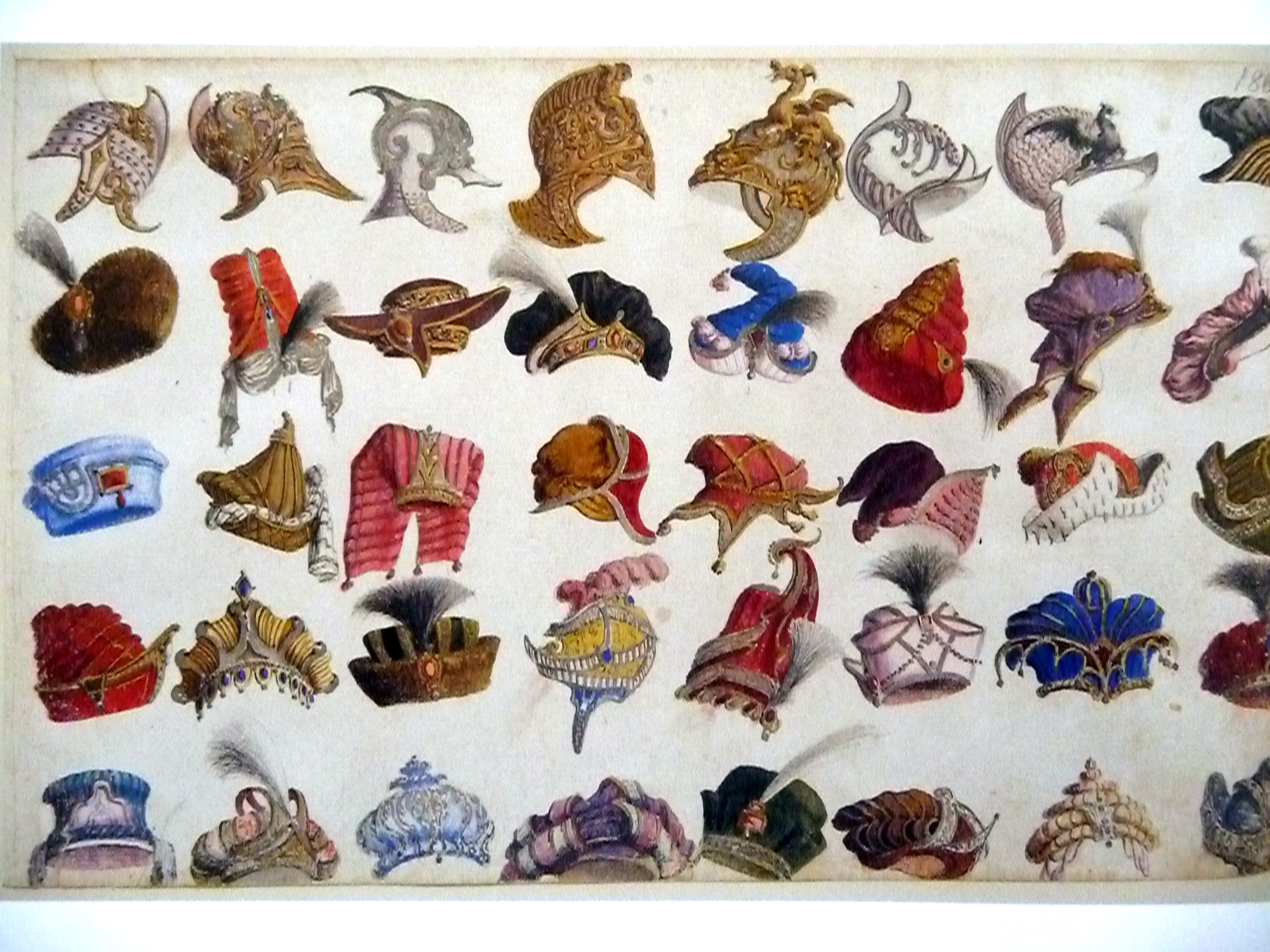 Das "Modekupfer" aus der Zeit des ausgehenden 17. Jahrhunderts zeigt unterschiedliche Kopfbedeckungen als Attribut zu Bühnenkostümen für Herren.